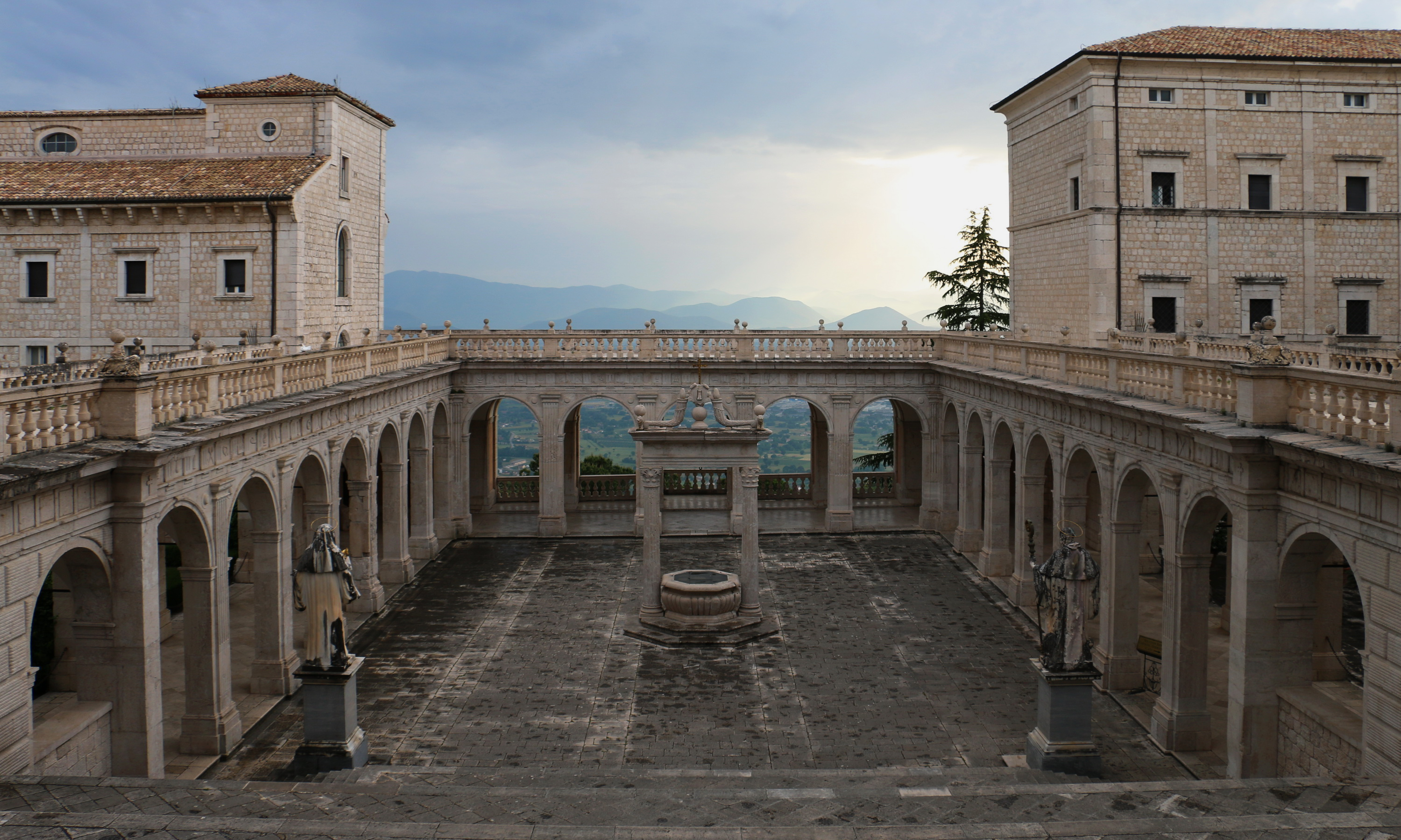 Abbey of Monte Cassino Native nameAbbazia di MontecassinoLocationMontecassino, Lazio, ItalyCoordinates41° 29′ 29″ N, 13° 48′ 52″ E Authority control VIAF: 223343083 LCCN: n80001255 GND: 1002981-3 SUDOC: 030113083 BNF: 12159420j WorldCat